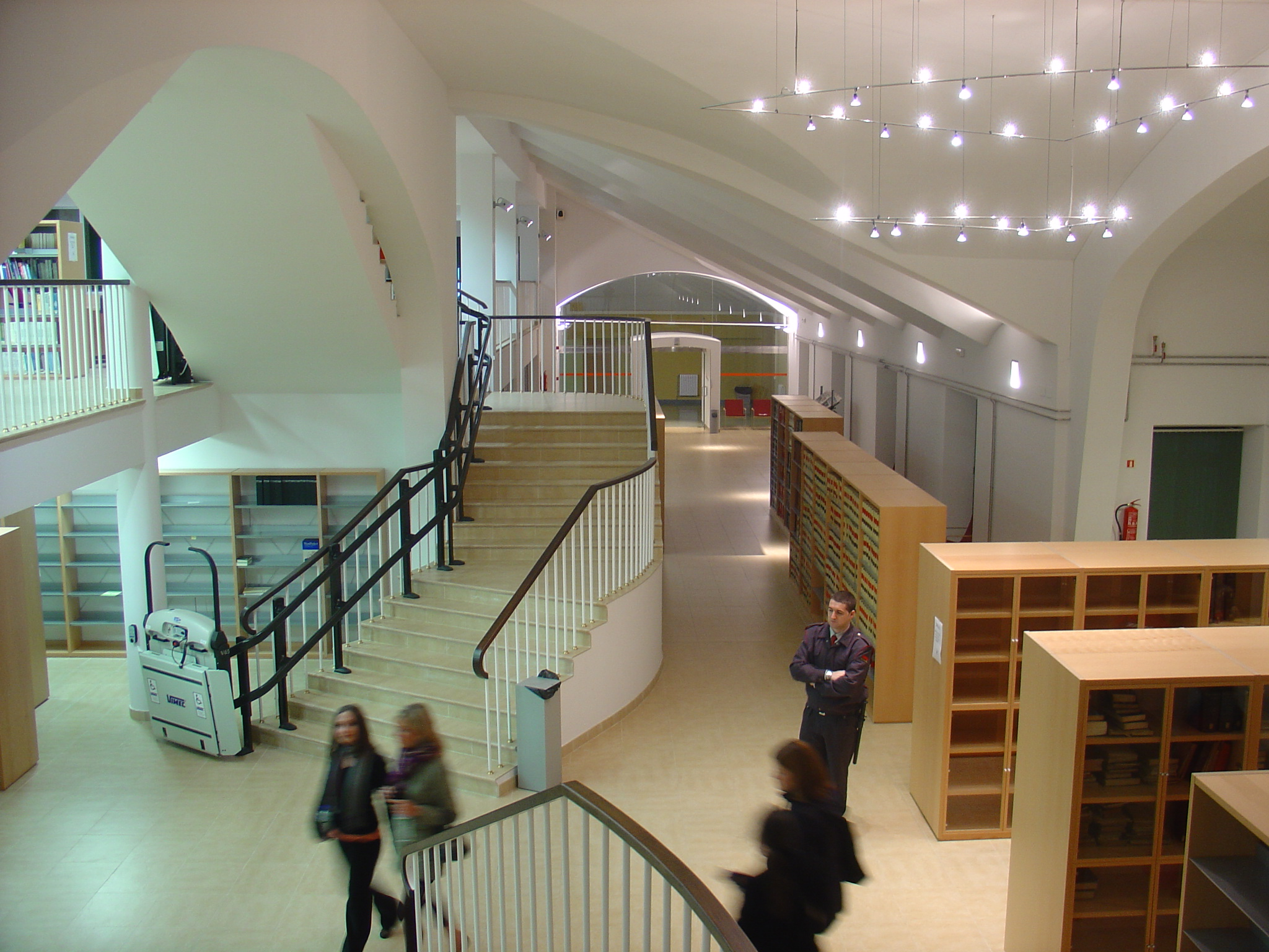 Universidad Laboral de Gijón - library.